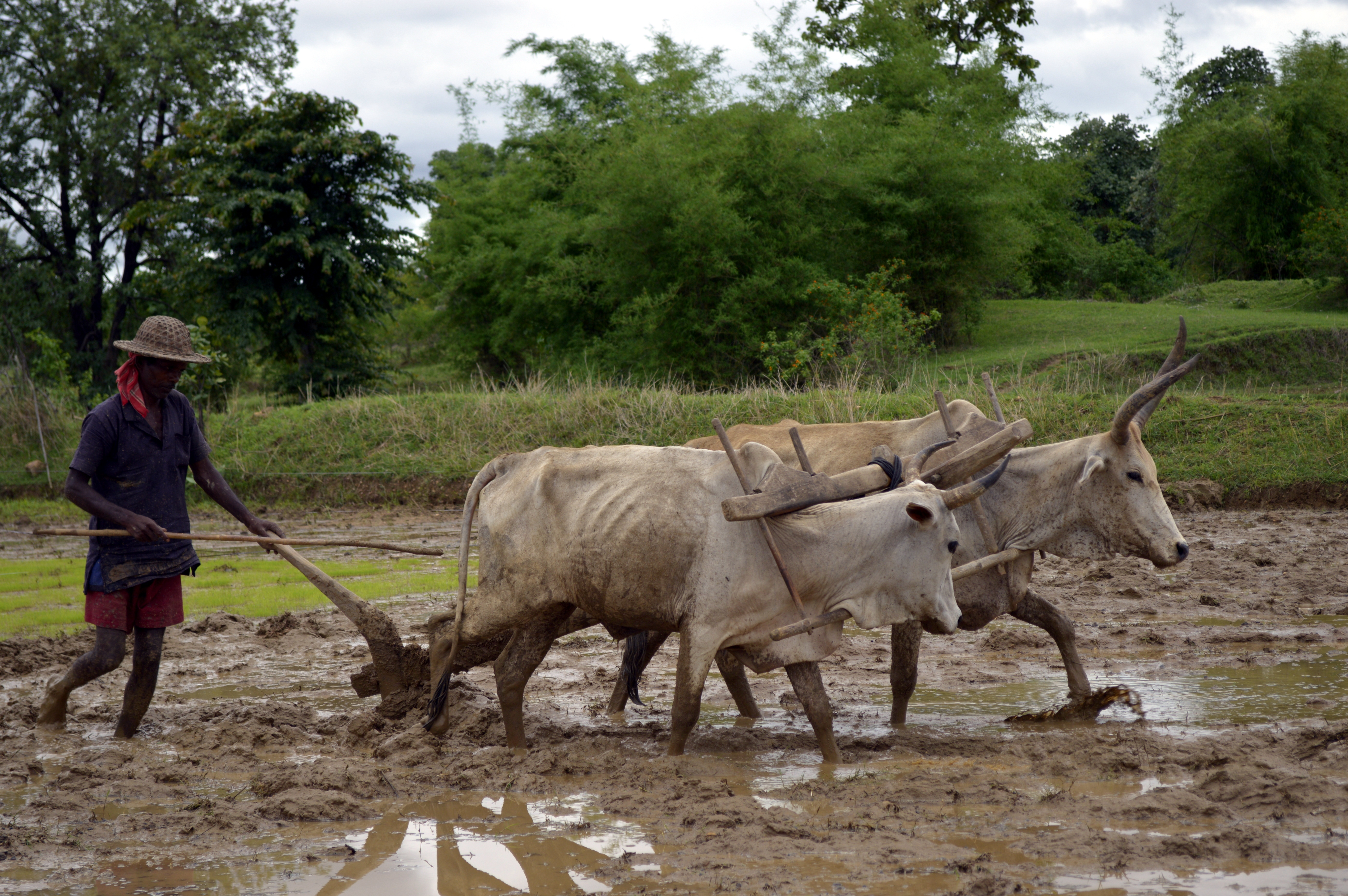 Ploughing a paddy field with oxen, Umaria district, Madhya Pradesh, India.